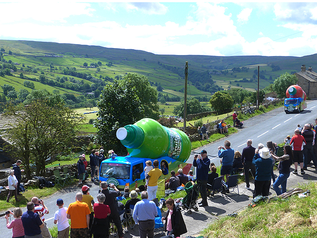 La Caravanne Publicitaire (4)